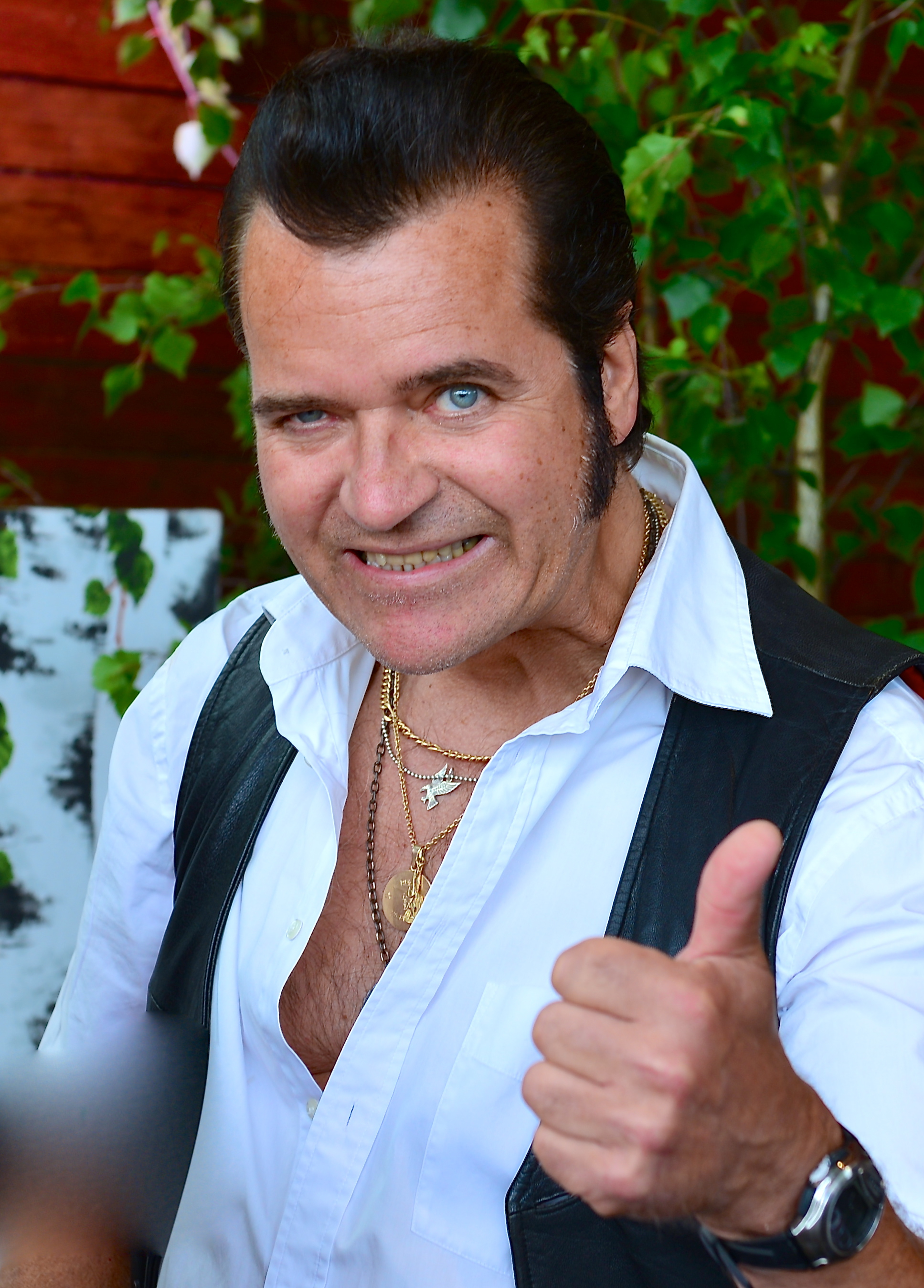 Peter Jezewski during the stage presentation to Allsång på Skansen in Stockholm June 11, 2013.